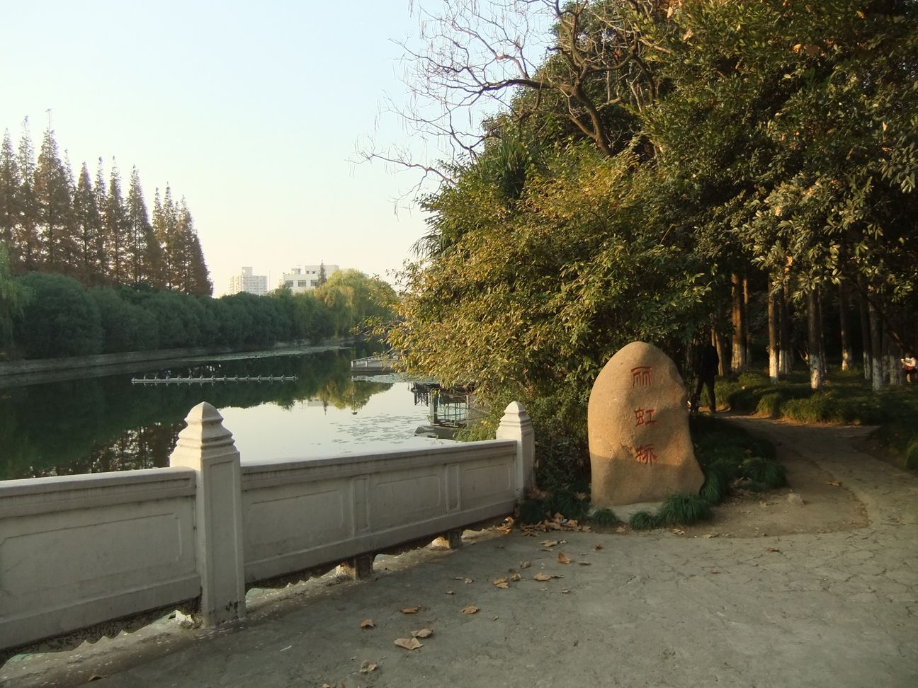 丽虹桥 - Lihong Bridge - 2010.12